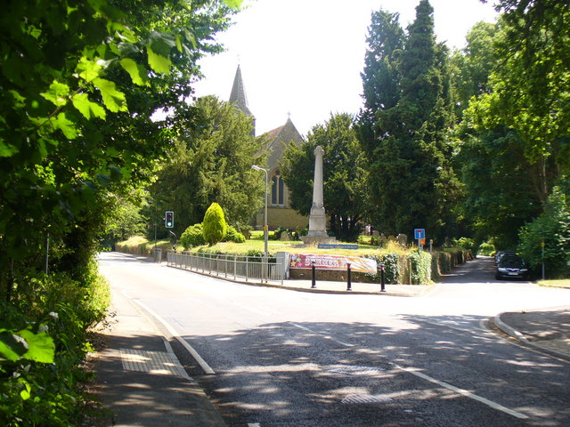 Brighton Road, Busbridge The parish church sits in the fork between Brighton and Hambledon Roads.